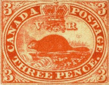 3 pence beaver - first Canadian stamp